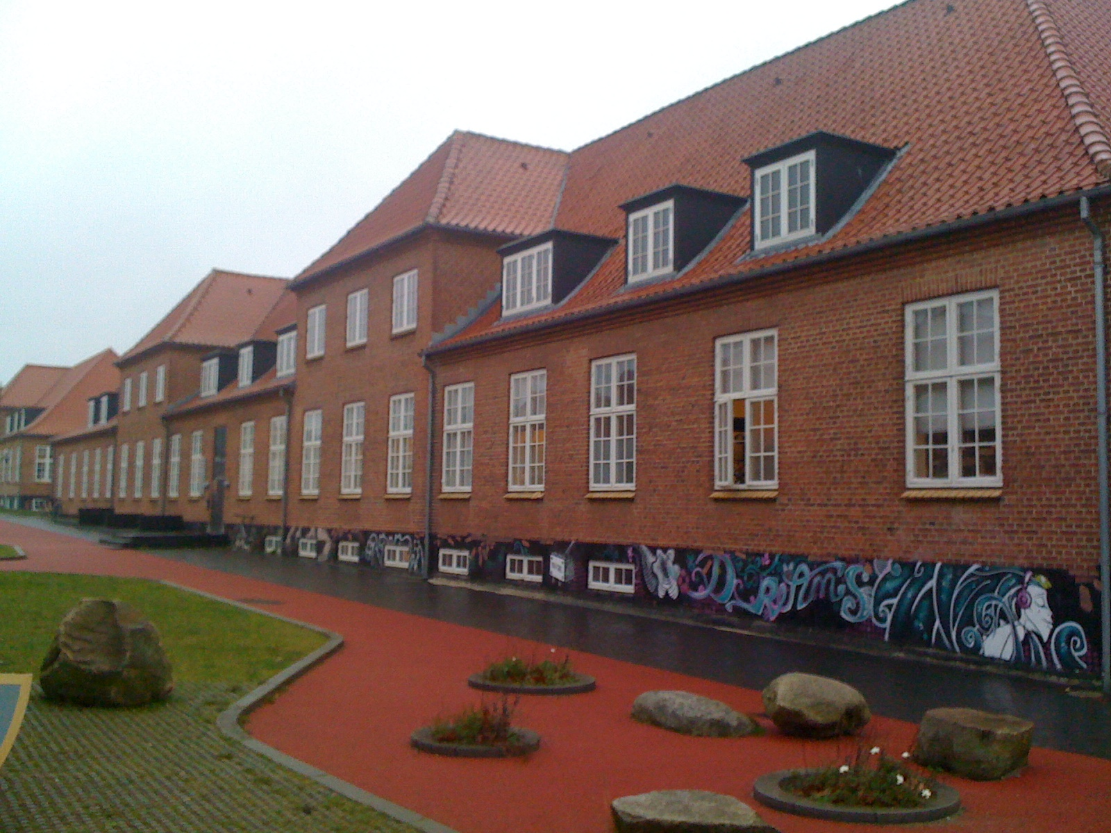 Animation workshop, Viborg, Jutland